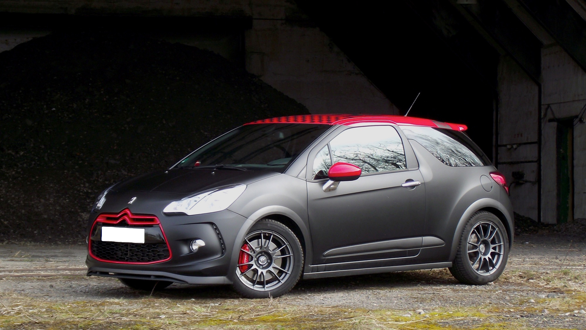 Citroën DS3 Racing THP 200 S. Loeb Edition